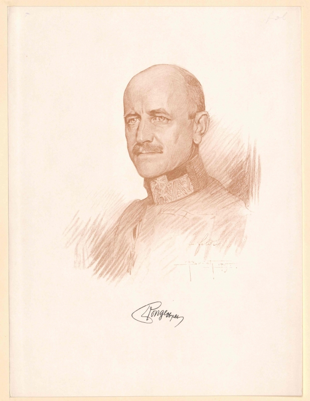 Maximilian Ronge (1874-1953), officer of Austria-Hungary